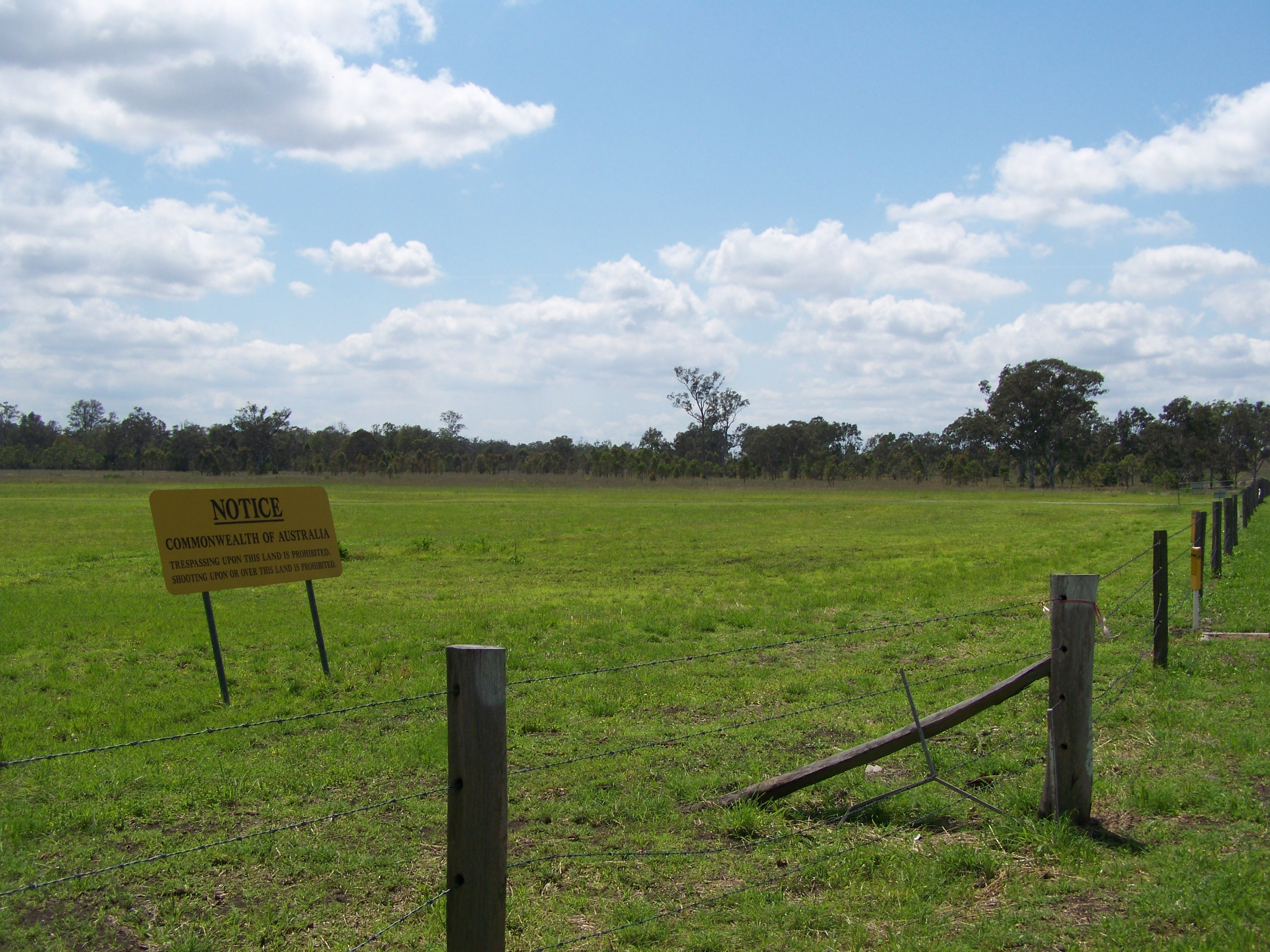 Welcome to Australia